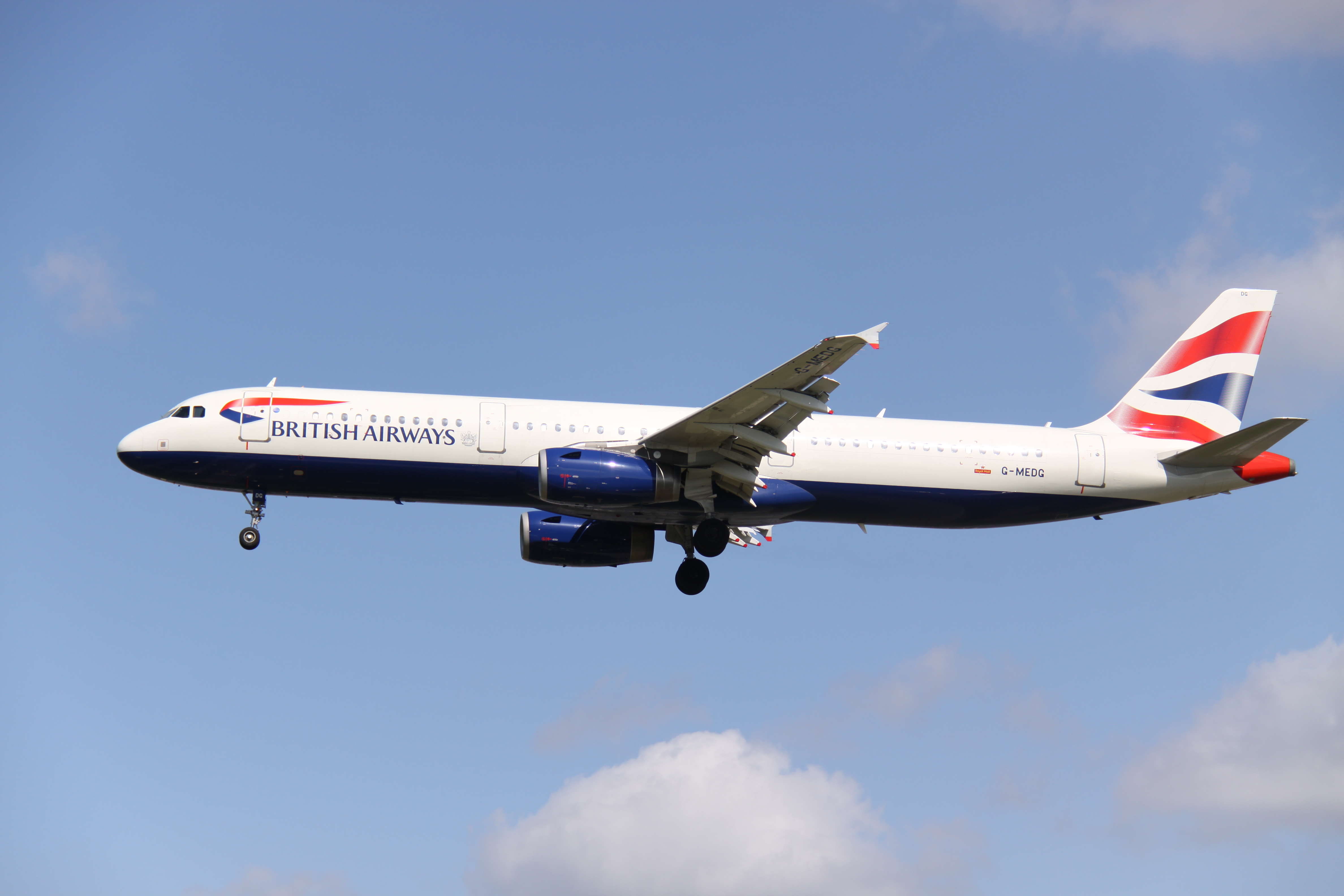 At London Heathrow